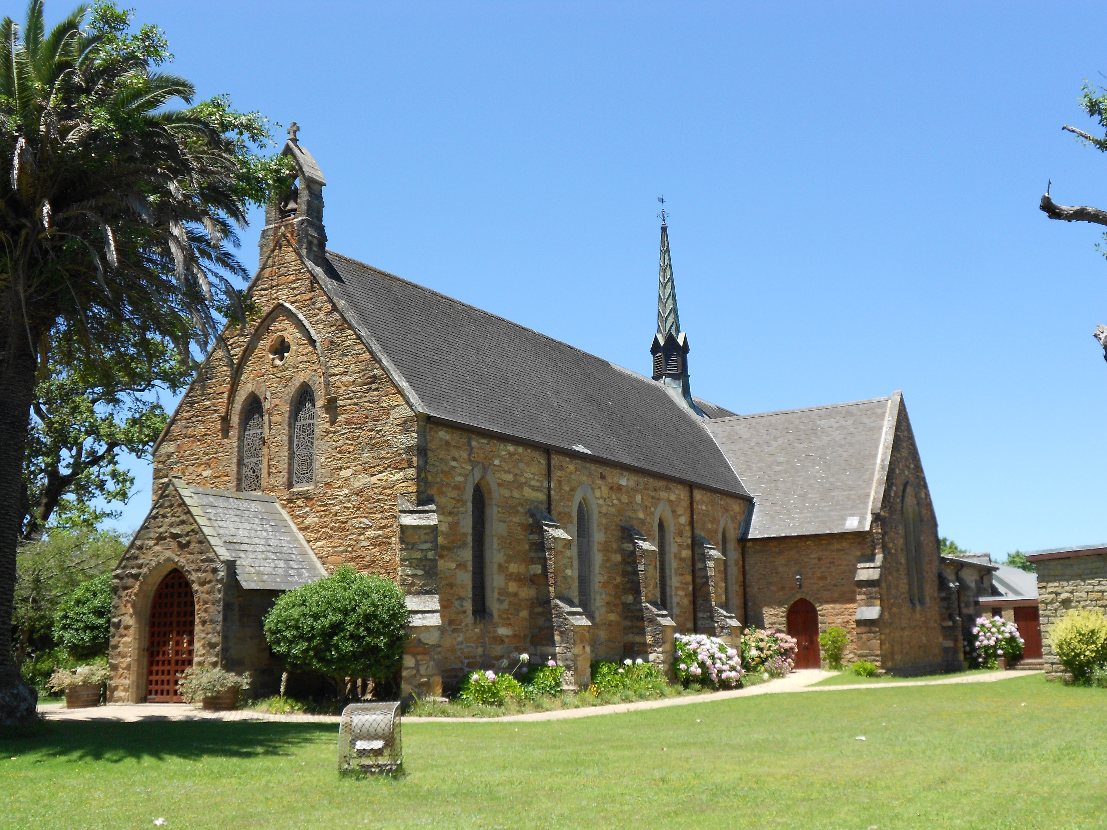 St. Marks Anglican Cathedral, York Street, George This media shows a South African Protected Site with SAHRA file reference 9/2/030/0040.